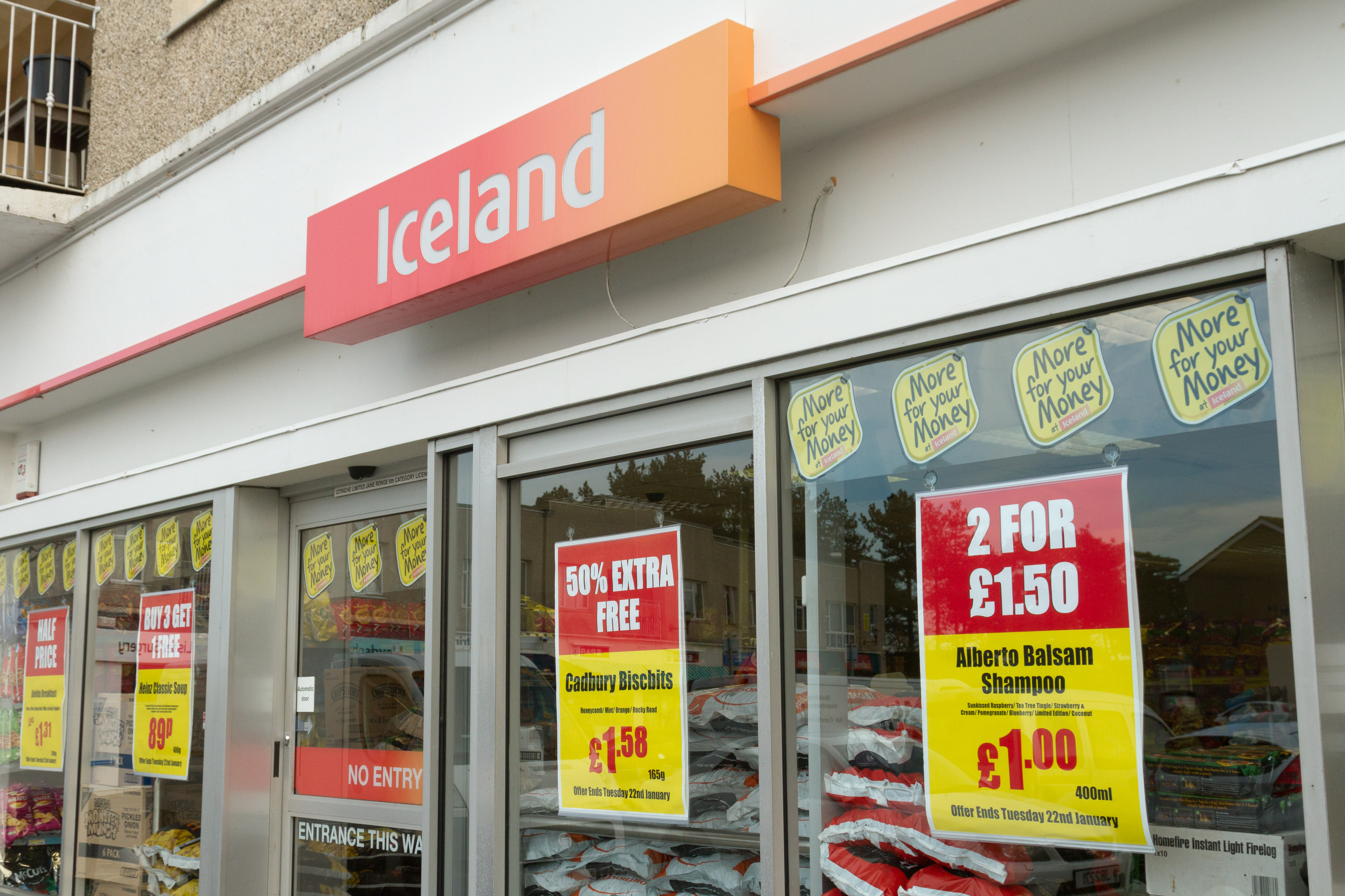 Iceland supermarket in St Brélade in Jersey.